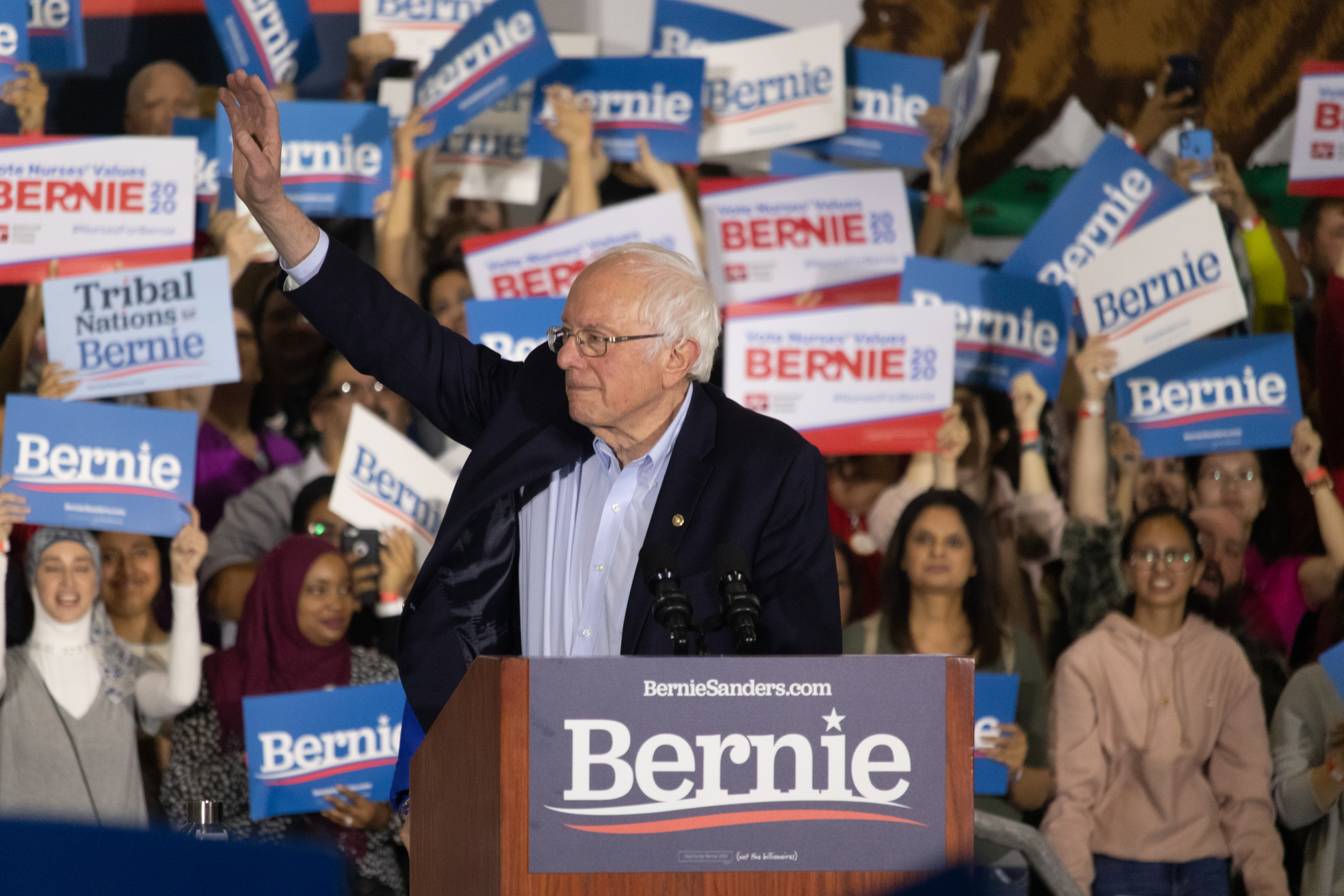 U.S. Senator Bernie Sanders speaking at a campaign rally on 1 March 2020.